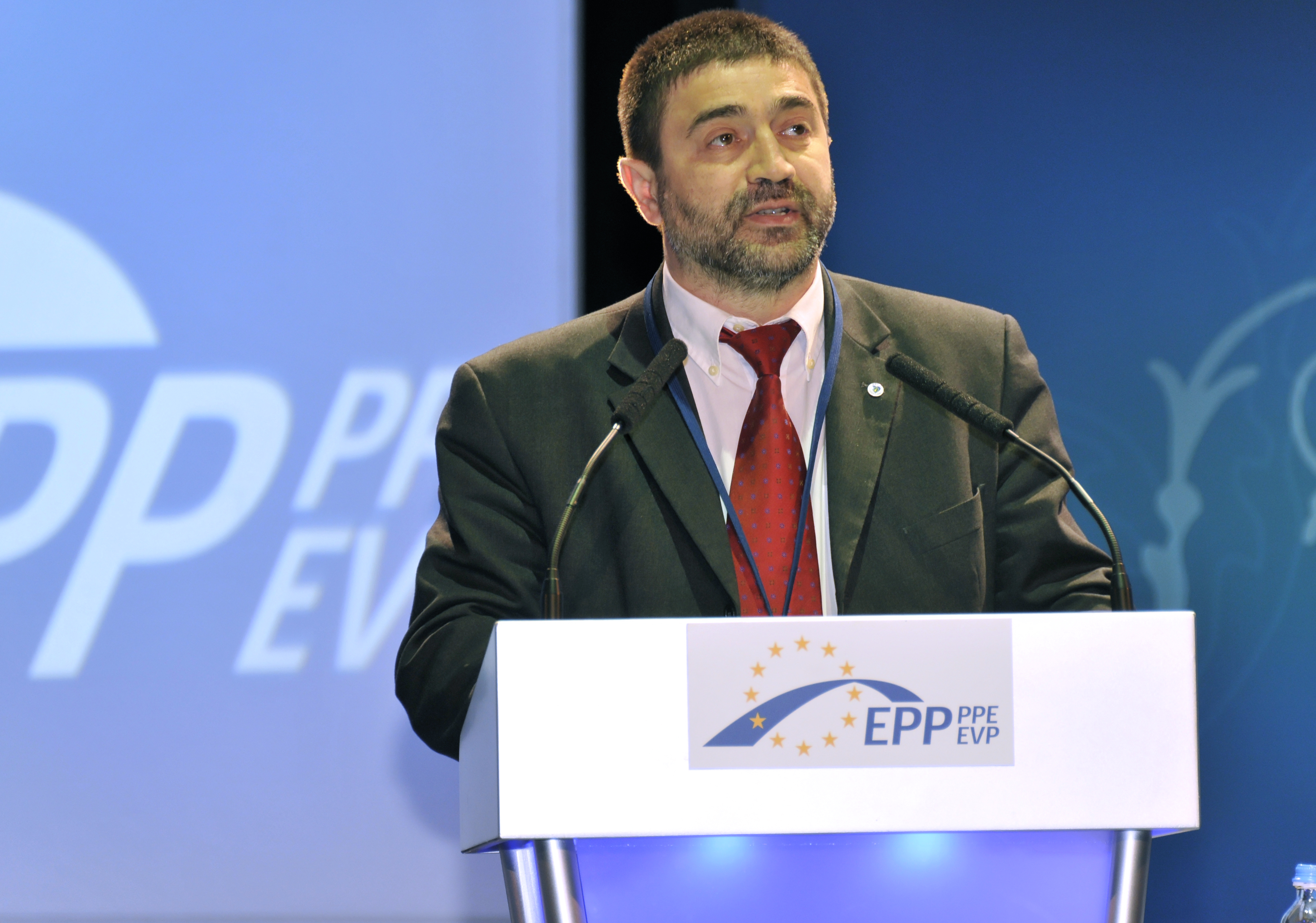 EPP Congress Warsaw